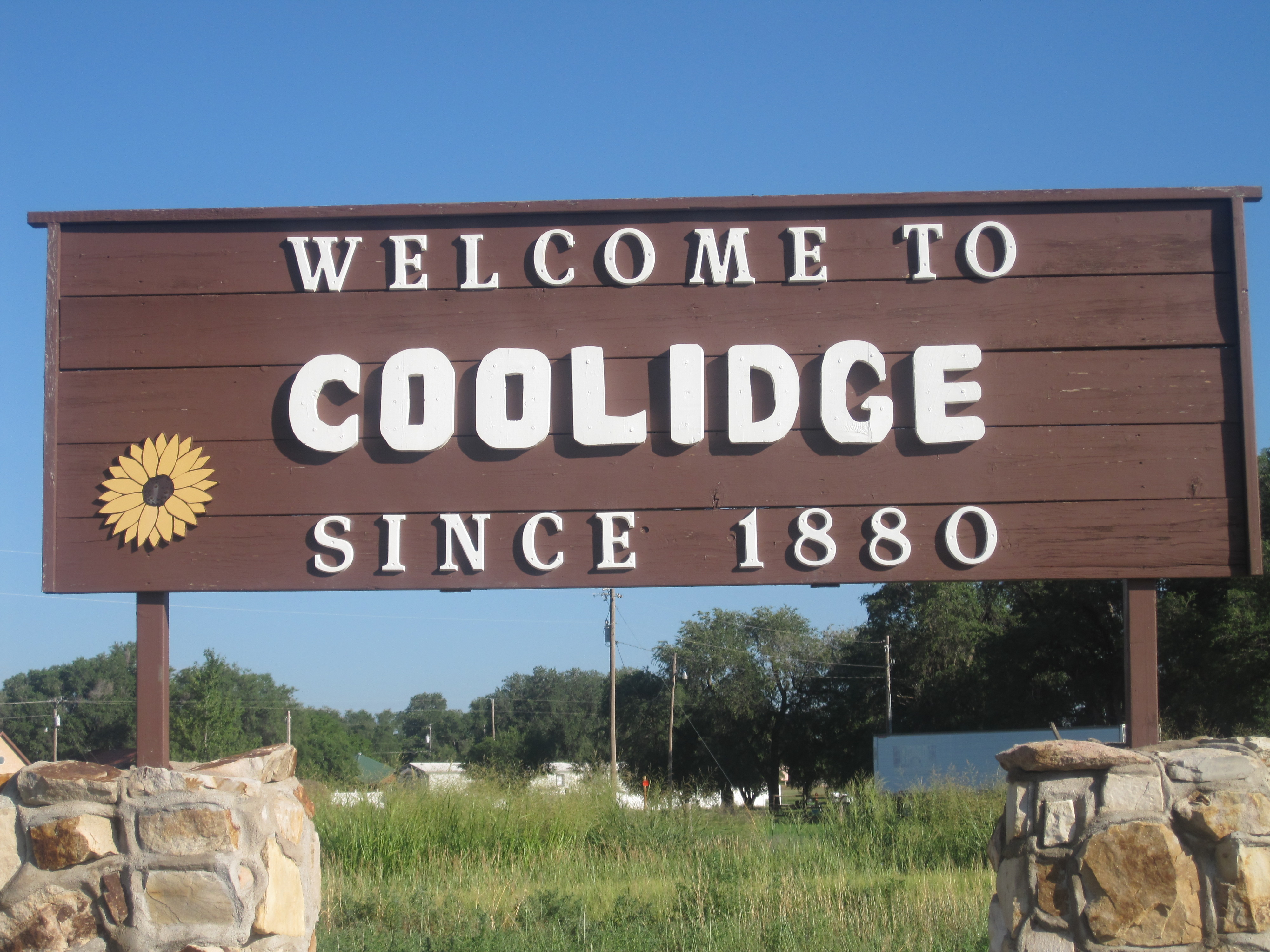 I took photo in Coolidge, KS, with Canon camera.